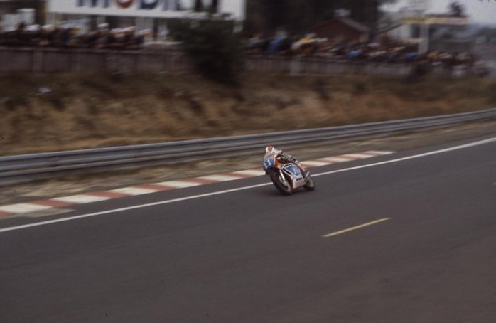 Eric Saul leading the 250cc race in France during the 1979 Grand Prix